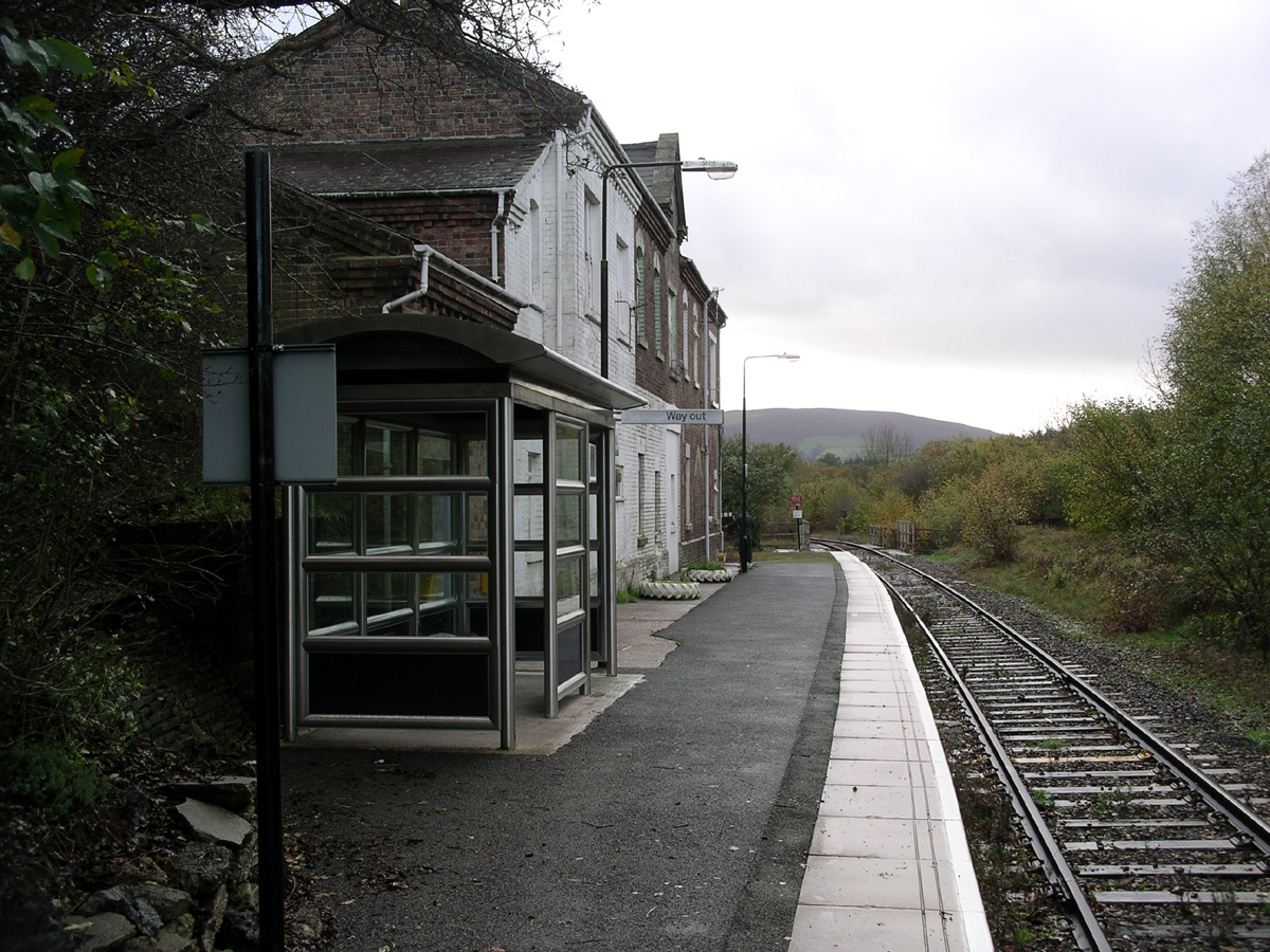 Buith Road railway station, near Builth Wells, mid Wales